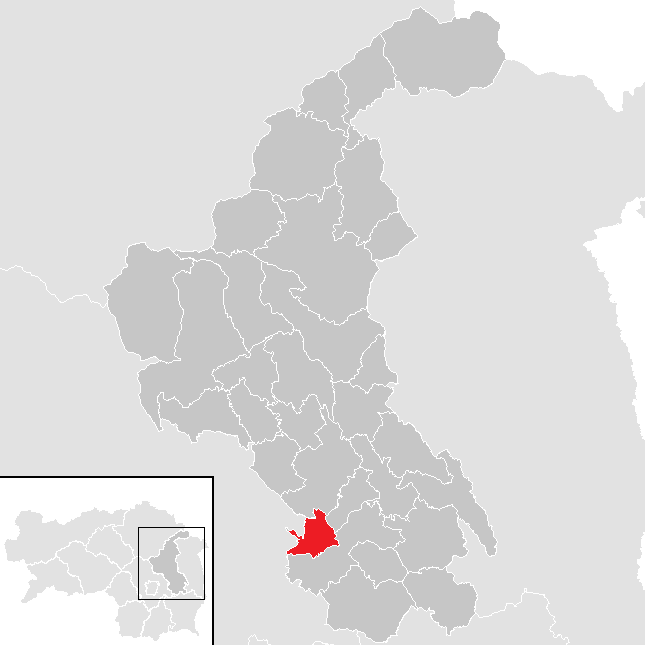 district Weiz